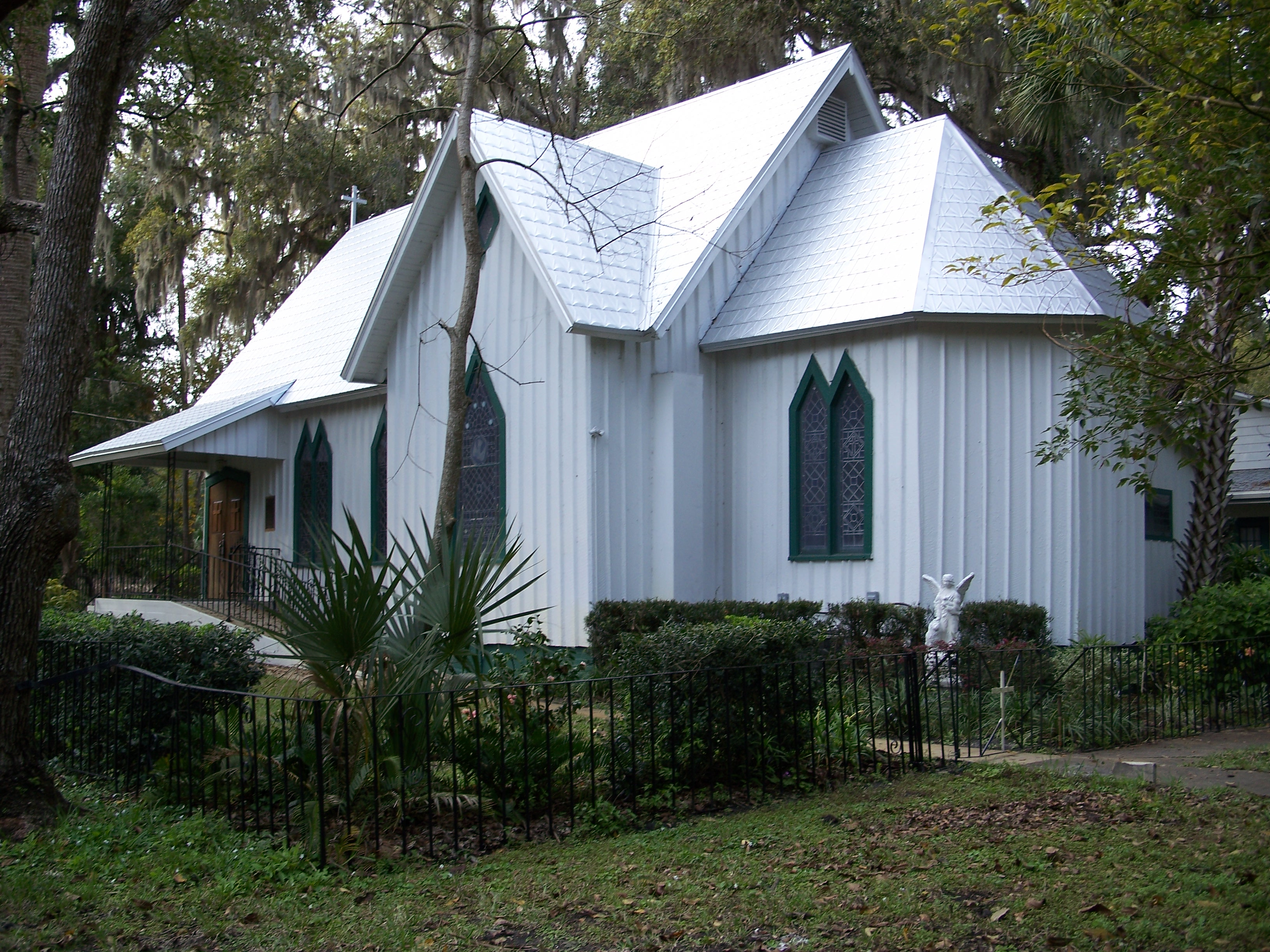 All Saint's Episcopal Church, in Enterprise, Florida One of two churches in Enterprise.